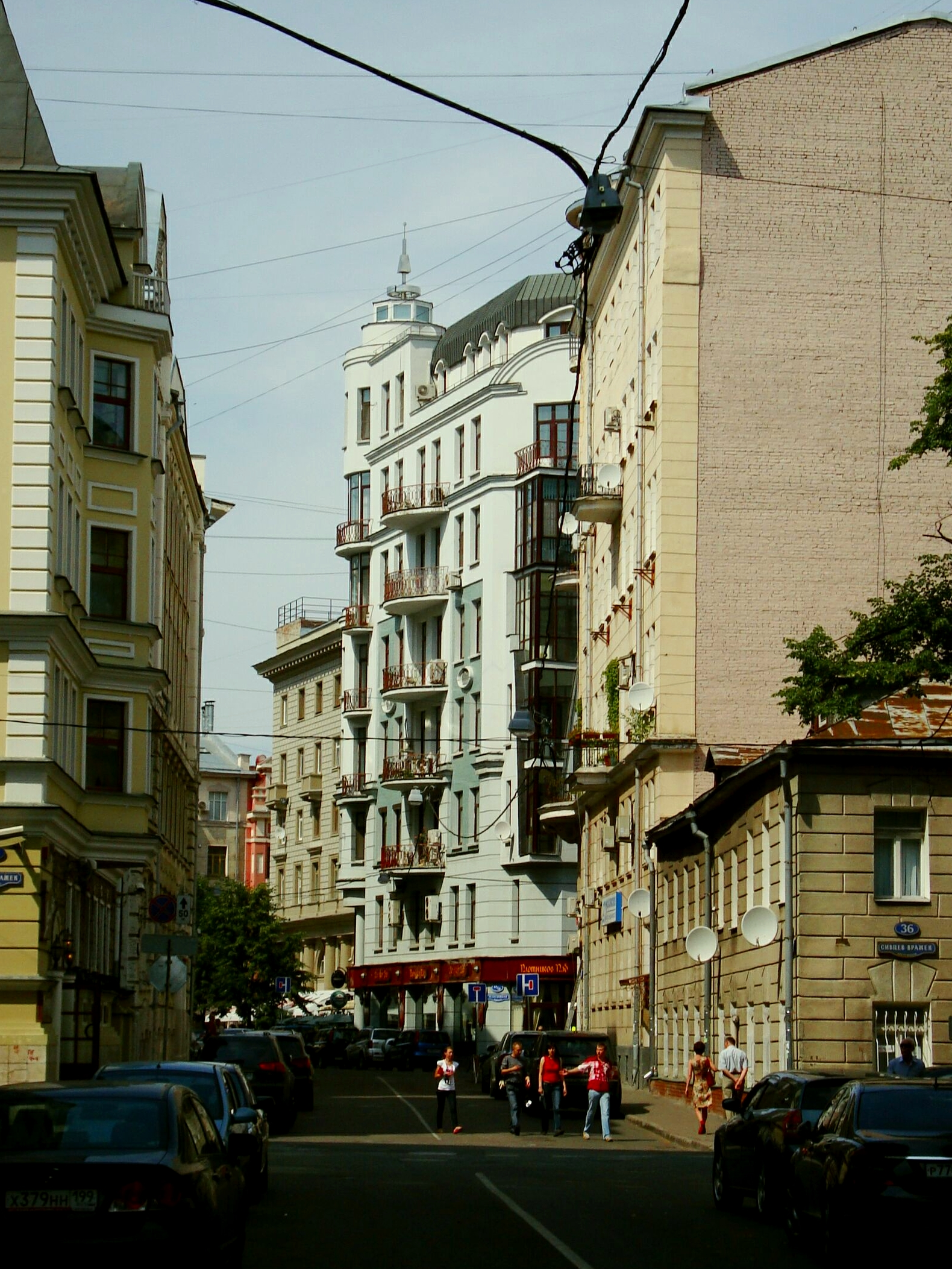 Moscow, Earth city, Plotnikov & Sivcev Vrazhek lanes crossroads